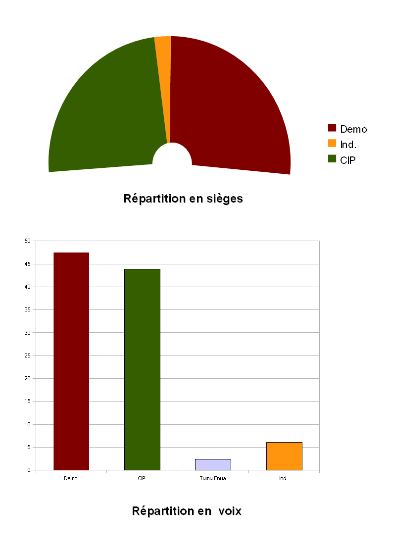 2004 Cook Islands General elections